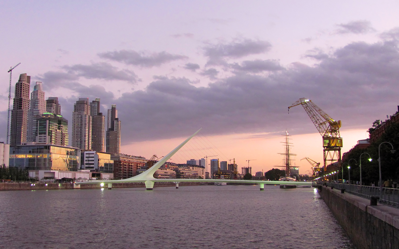 With its new High-Rises, the "Puente de la Mujer" (Spanish for Woman's Bridge) designed by Santiago Calatrava, the "Fragata A.R.A Presidente Sarmiento" museum ship and the remaining Container Cranes. Buenos Aires - Argentina